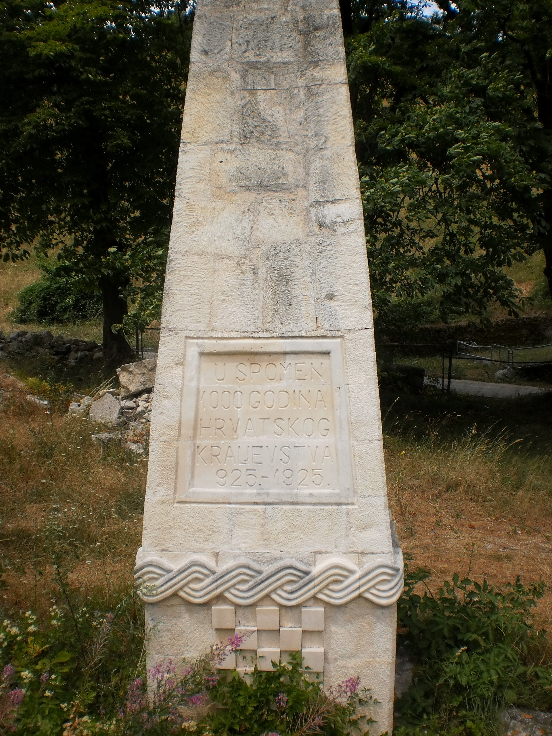 Restored monument to the Kingdom of Croatia Glamoč